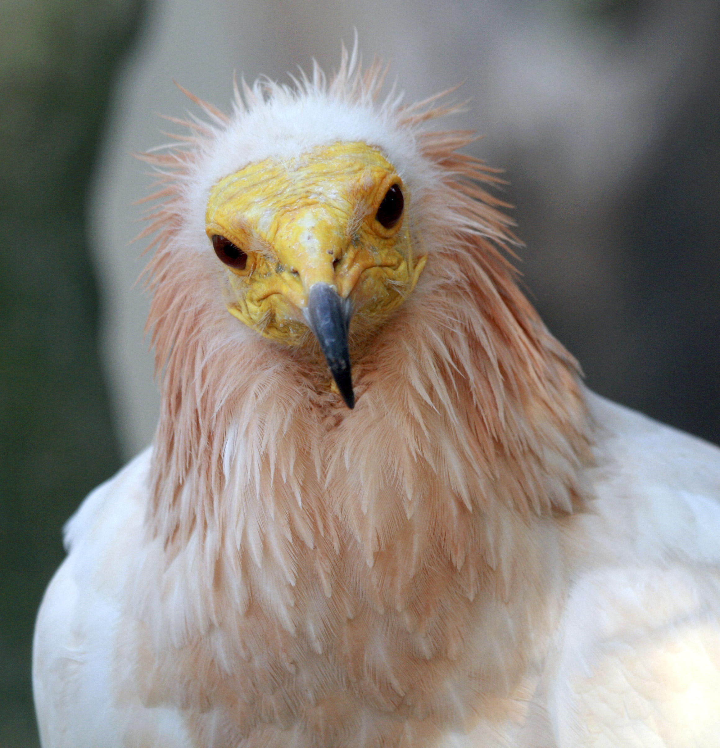 Egyptian Vulture (Neophron percnopterus) at the Tiergarten Schönbrunn in Vienna